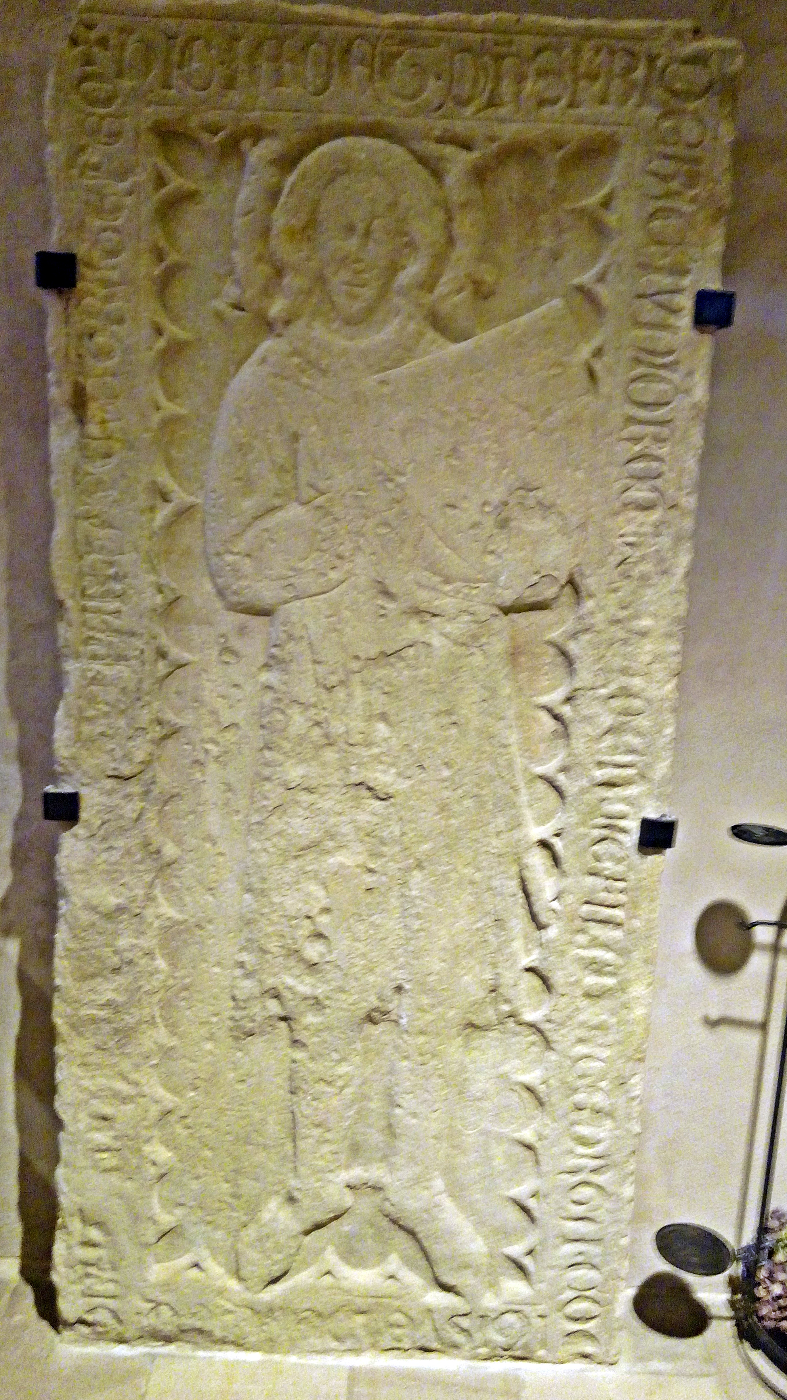 Veldenzer Grabplatte Chorkapelle